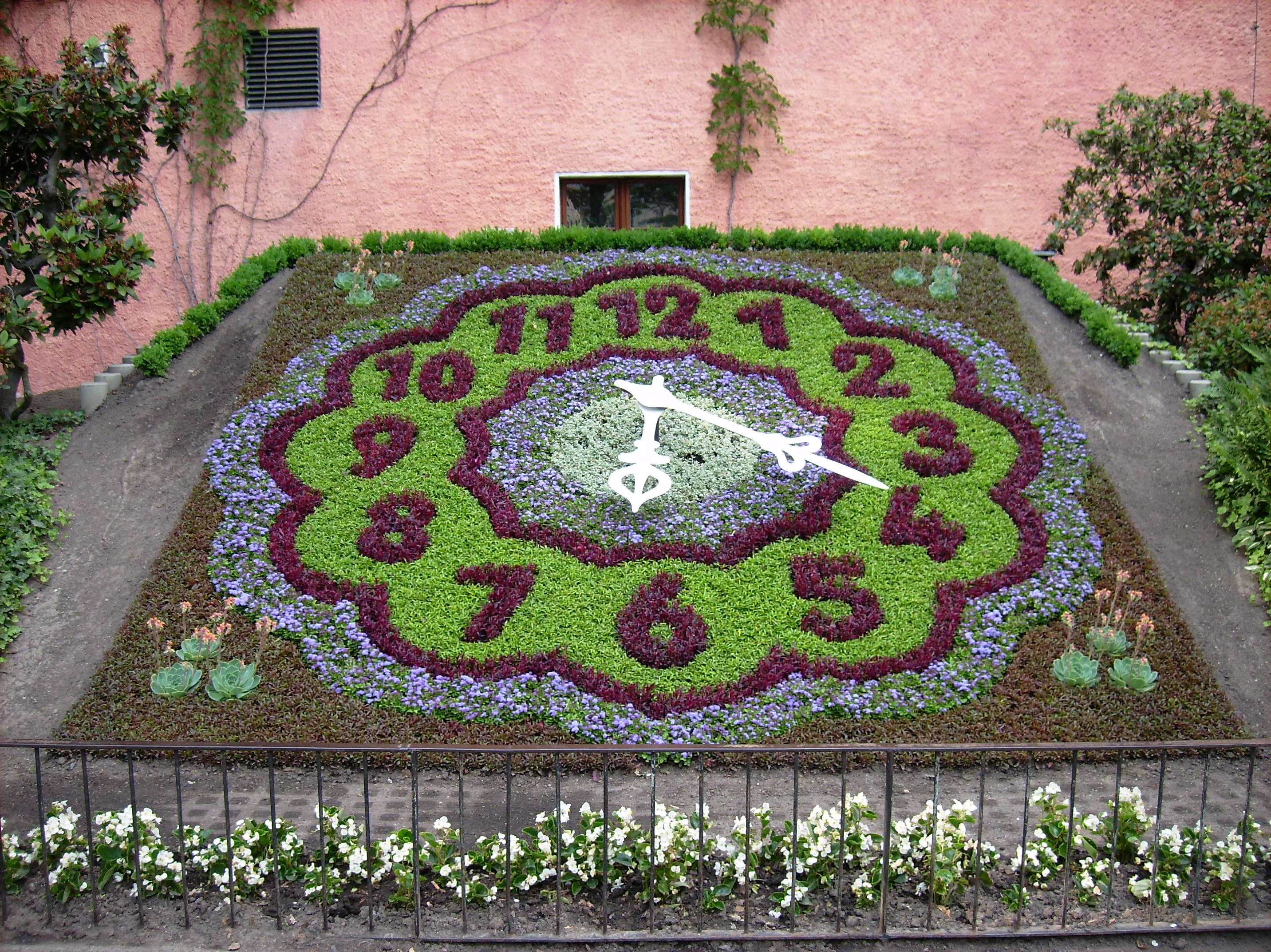 Floral clock at the Fleischerbastei (butchers' bastion) in Zittau (Görlitz district, Saxony), summer aspect